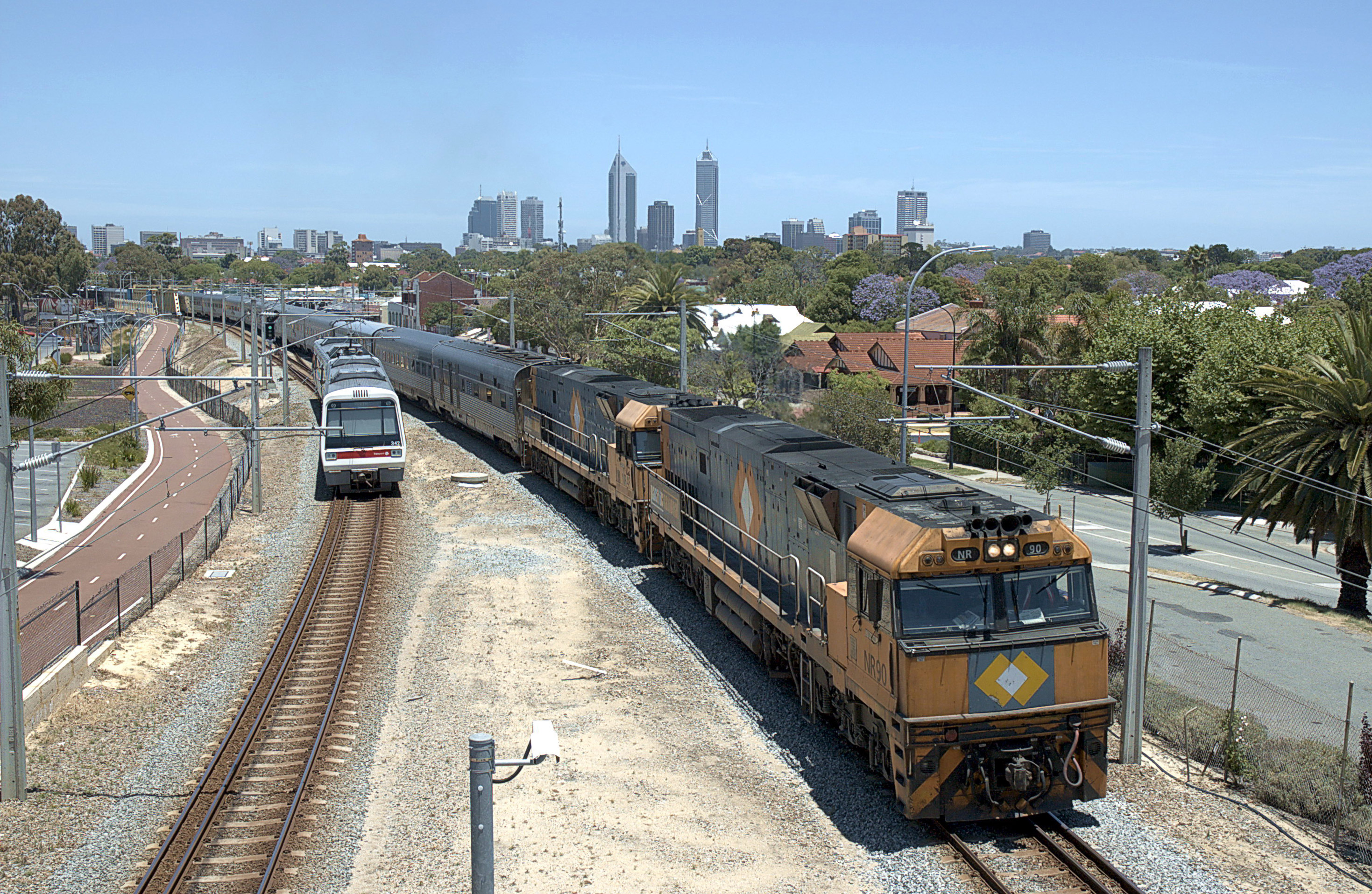 Indian Pacific passenger train departs East Perth Terminal in Perth, Western Australia. Photo taken from Mt Lawley footbridge. A Transperth A Series EMU is on the other line.